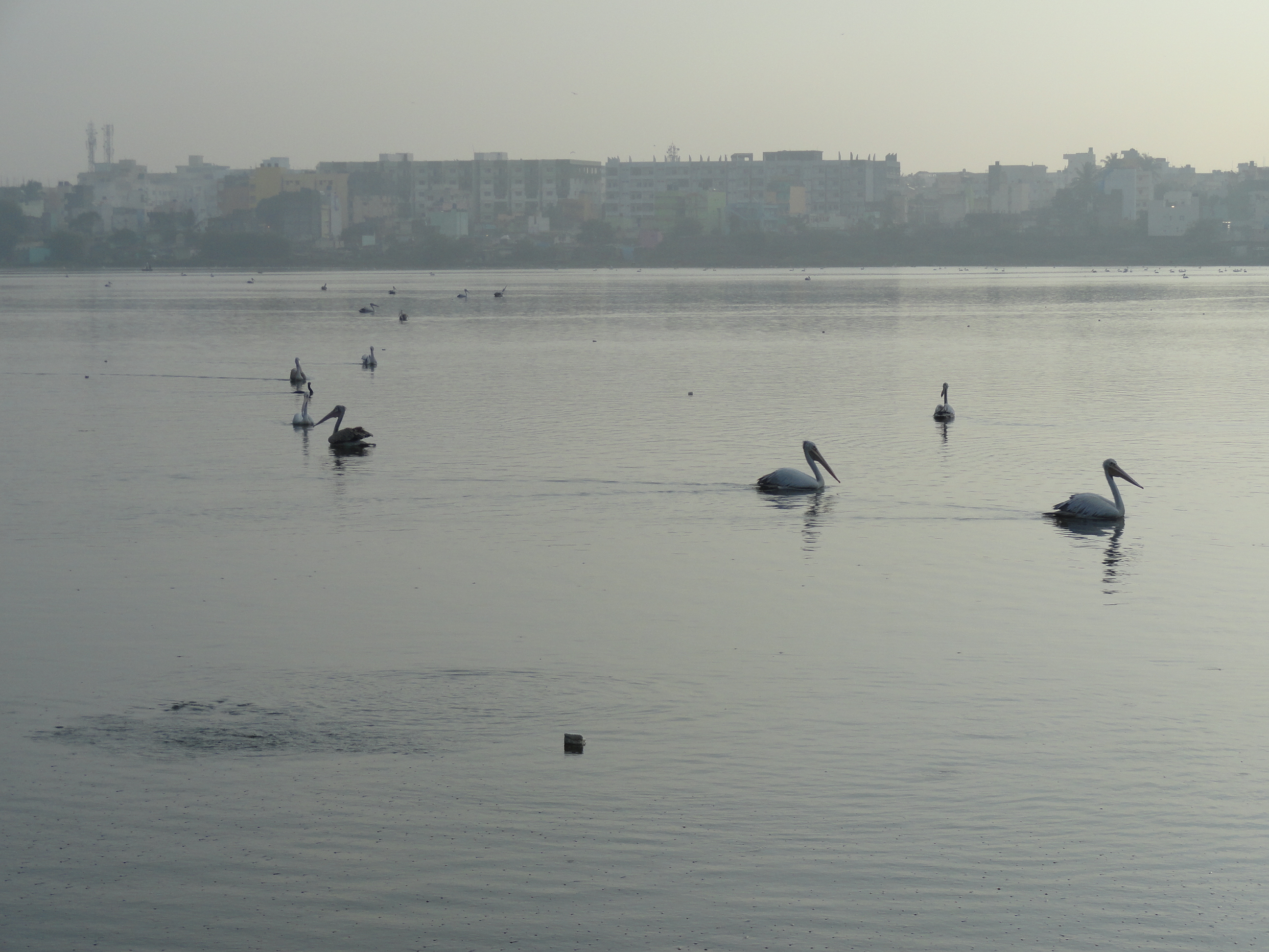 Migrant birds in Madiwala Lake during winter